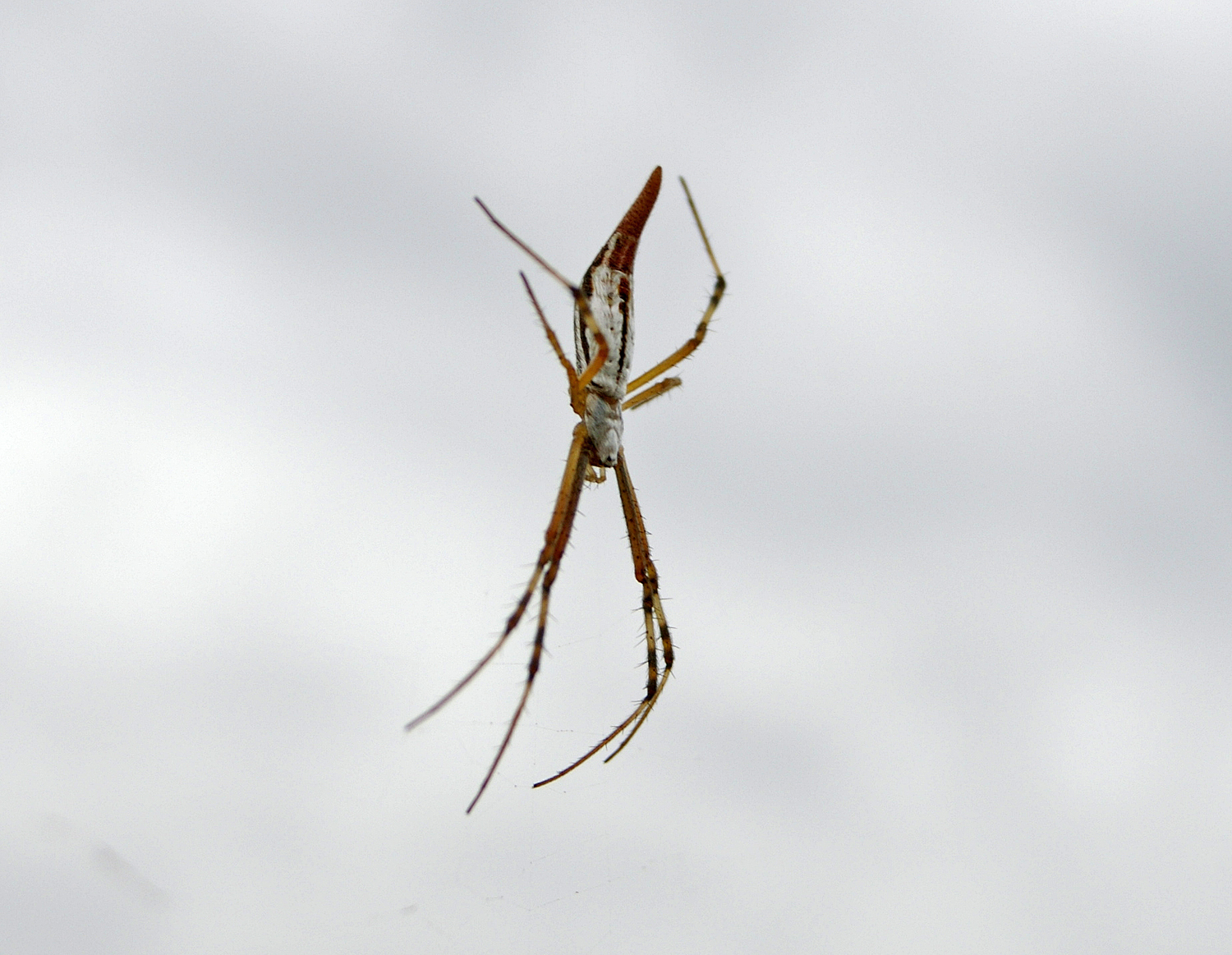 Argiope protensa[1], photographed at the Wagga Wagga Airport at Forest Hill, New South Wales.